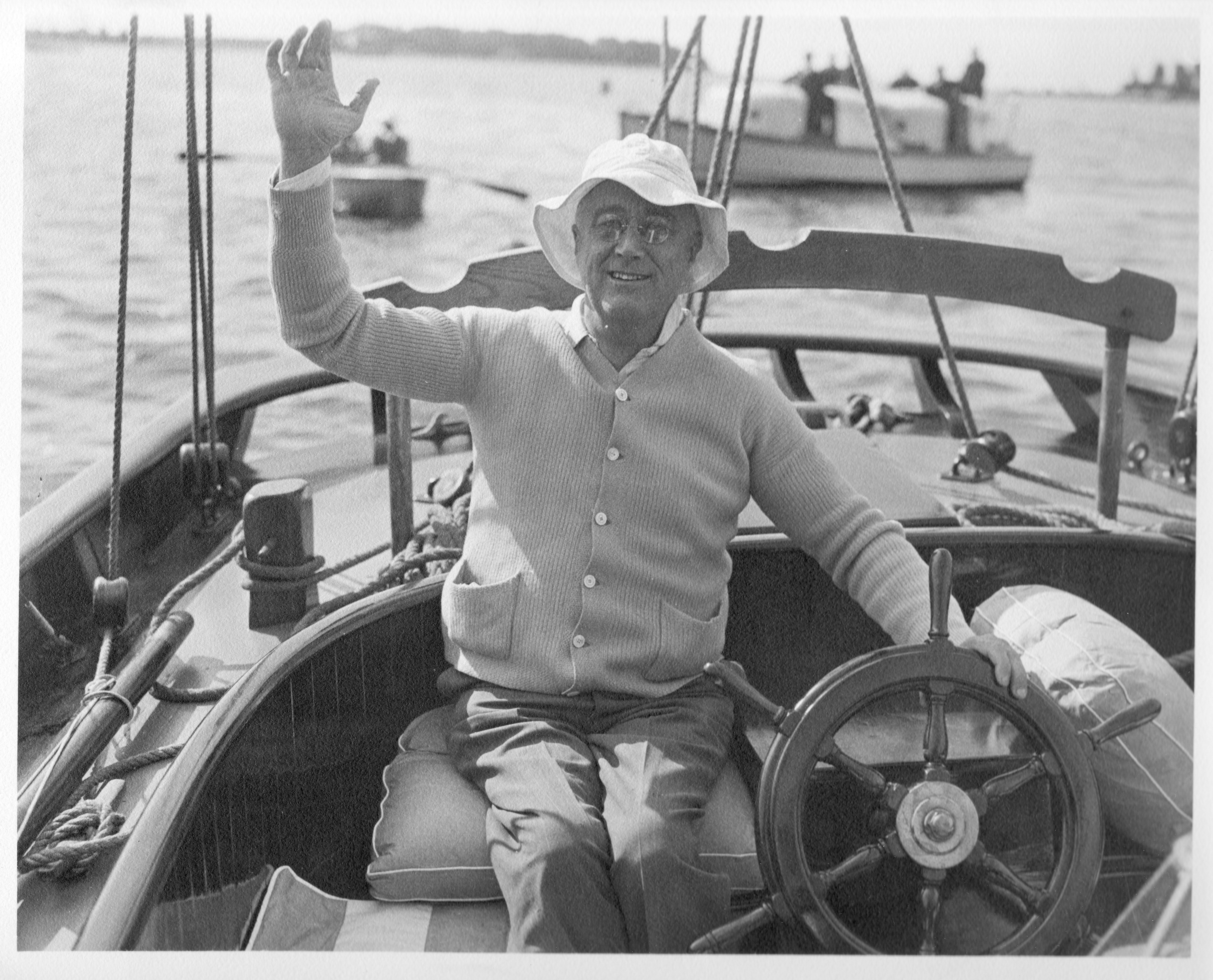 FDR sailing from Marion, MA to Campobello aboard the Amberjack II. June 1933